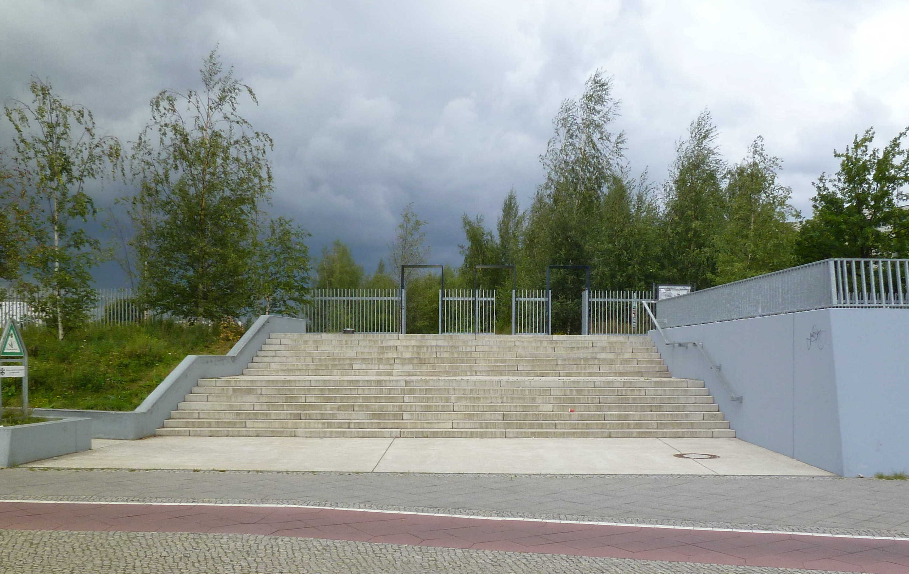 Park am Nordbahnhof. Entrance at Julie-Wolfthorn-Straße